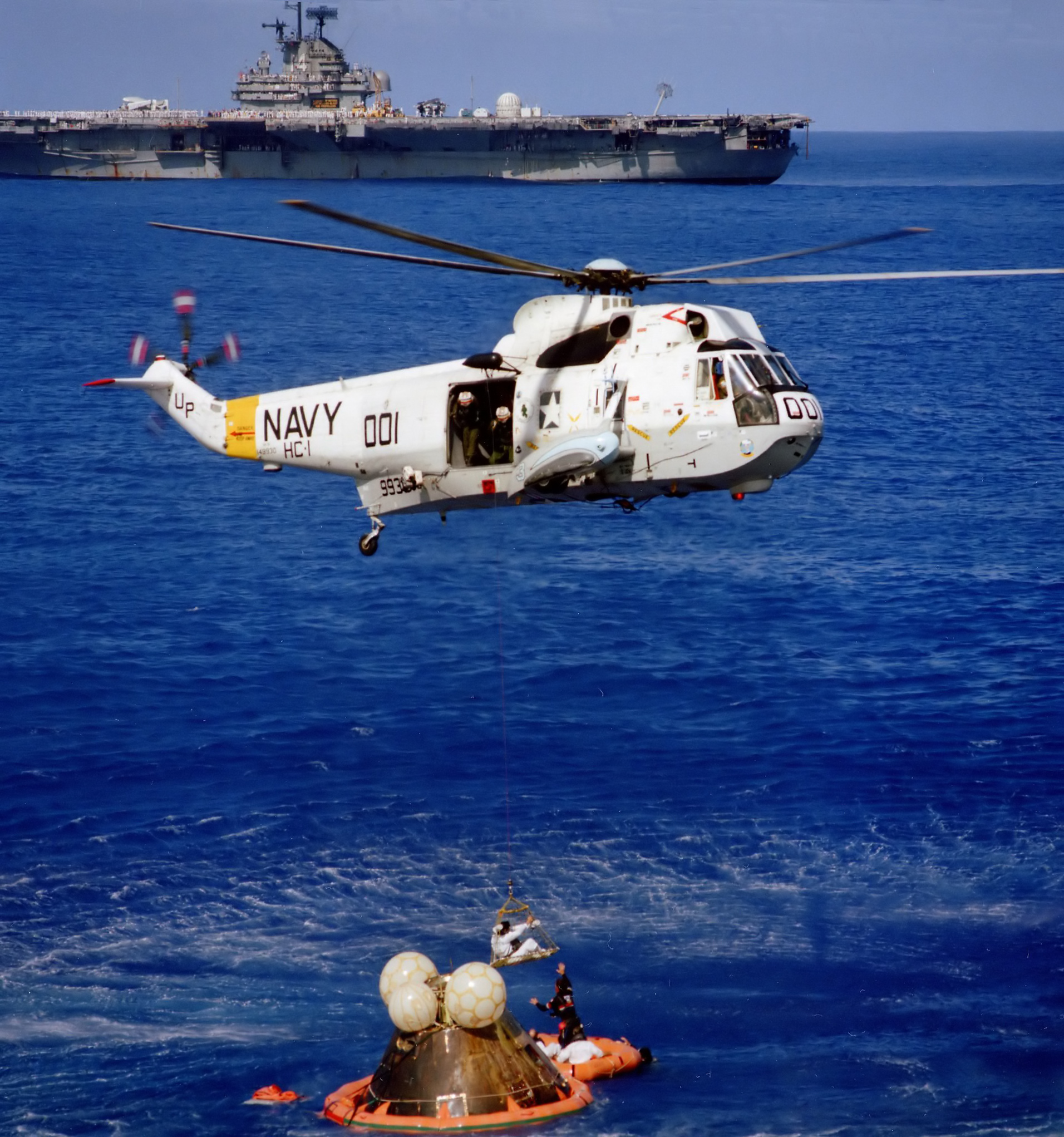 A U.S. Navy Sikorsky SH-3G Sea King (BuNo 149930) of Helicopter Combat Support Squadron 1 (HC-1) "Pacific Fleet Angels" recovers an Apollo 17 astronaut on 19 December 1972, with the aircraft carrier USS Ticonderoga (CVS-14) in the background.